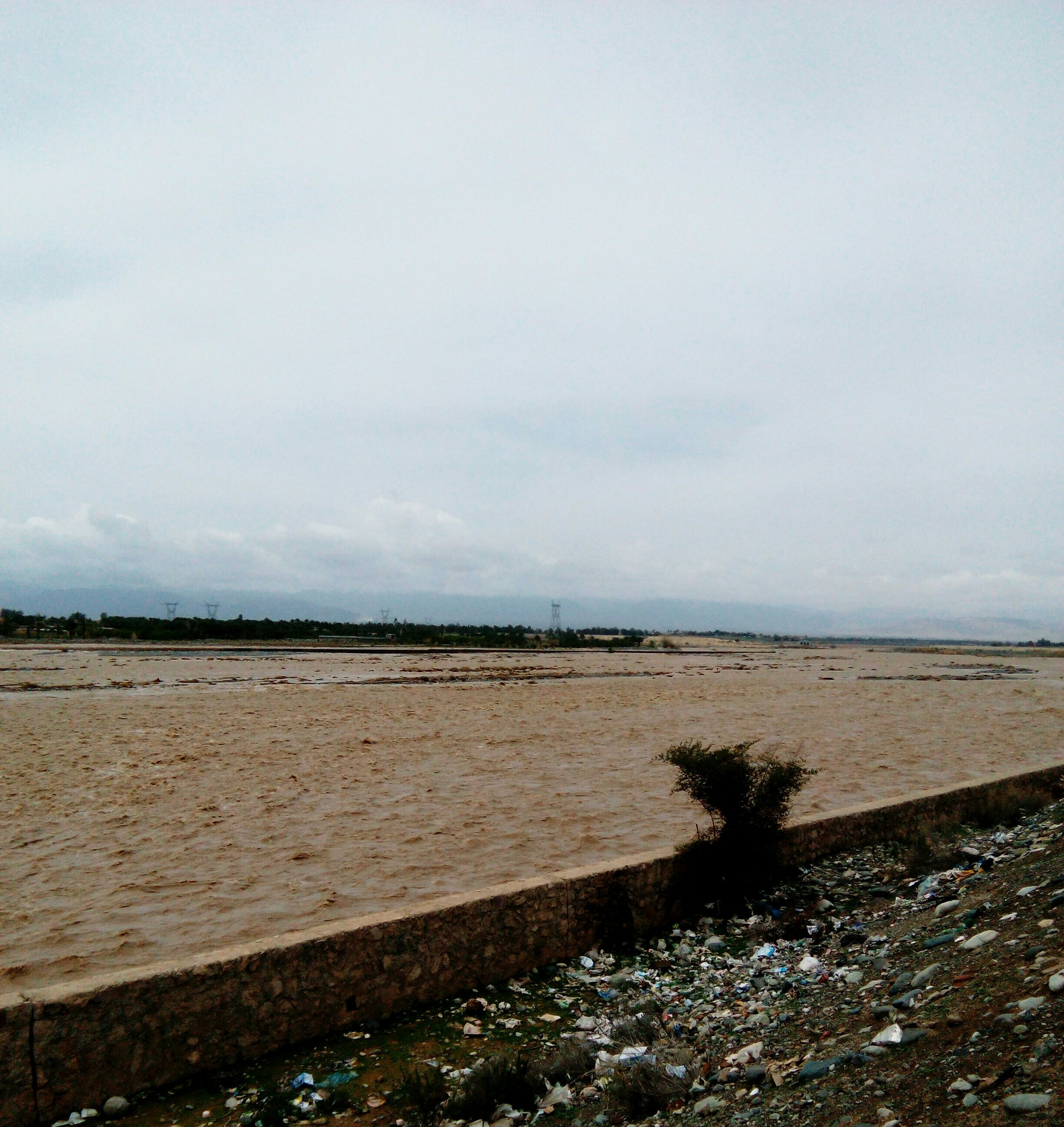 عکس مربوط به هلیل رود از منطقه رهجرد در فروردین ماه 96 با گوشی شخصی